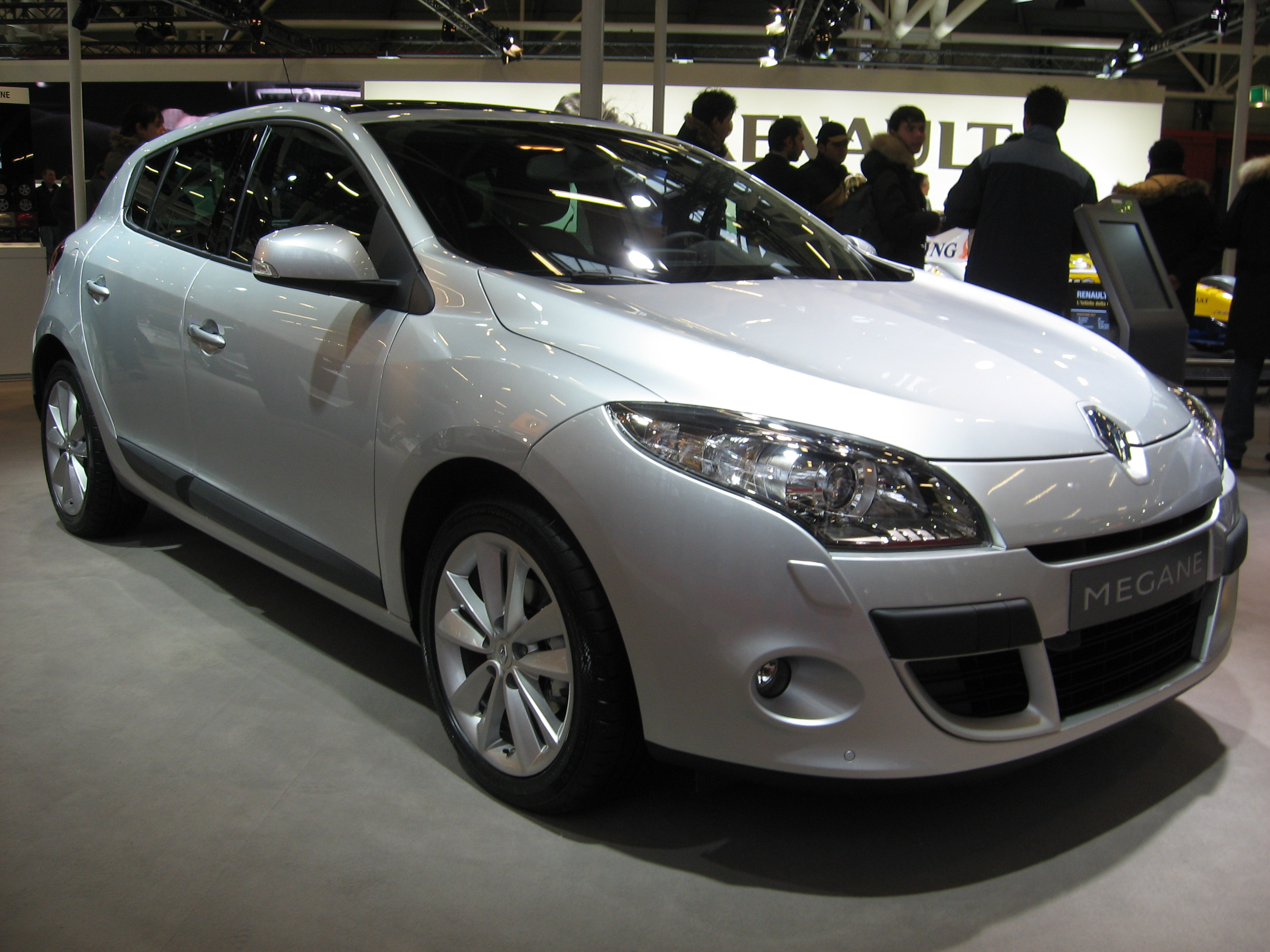 Subject: Renault Mégane Mk3 5p Date:December 14th, 2008 Event: Bologna Motorshow 2008 Place/Country: Bologna, Italy I release all rights in the public domain.